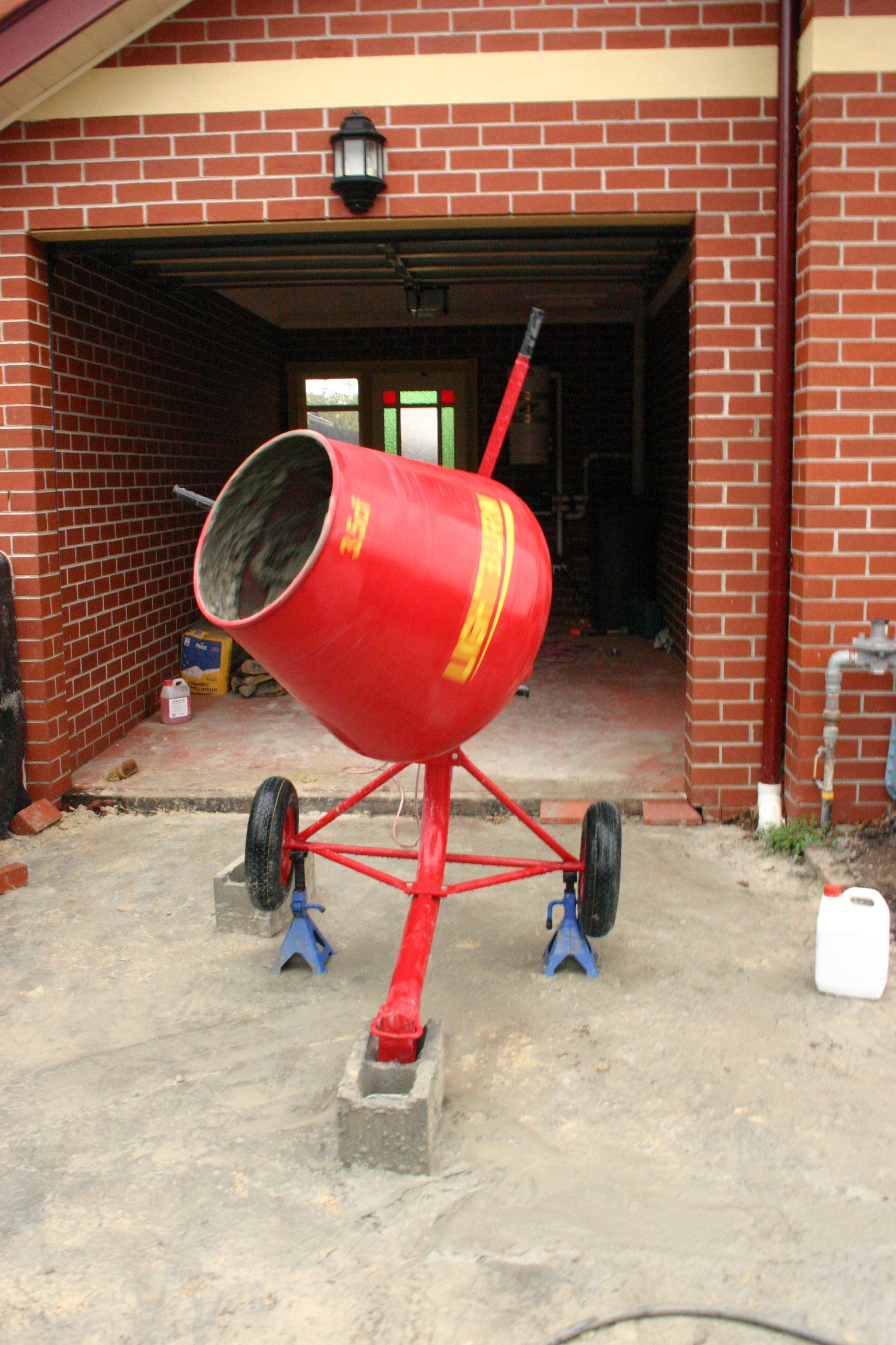 A portable cement mixer in action. It has wheels so it can be moved around by hand, and it's rotation is powered by mains electricity.